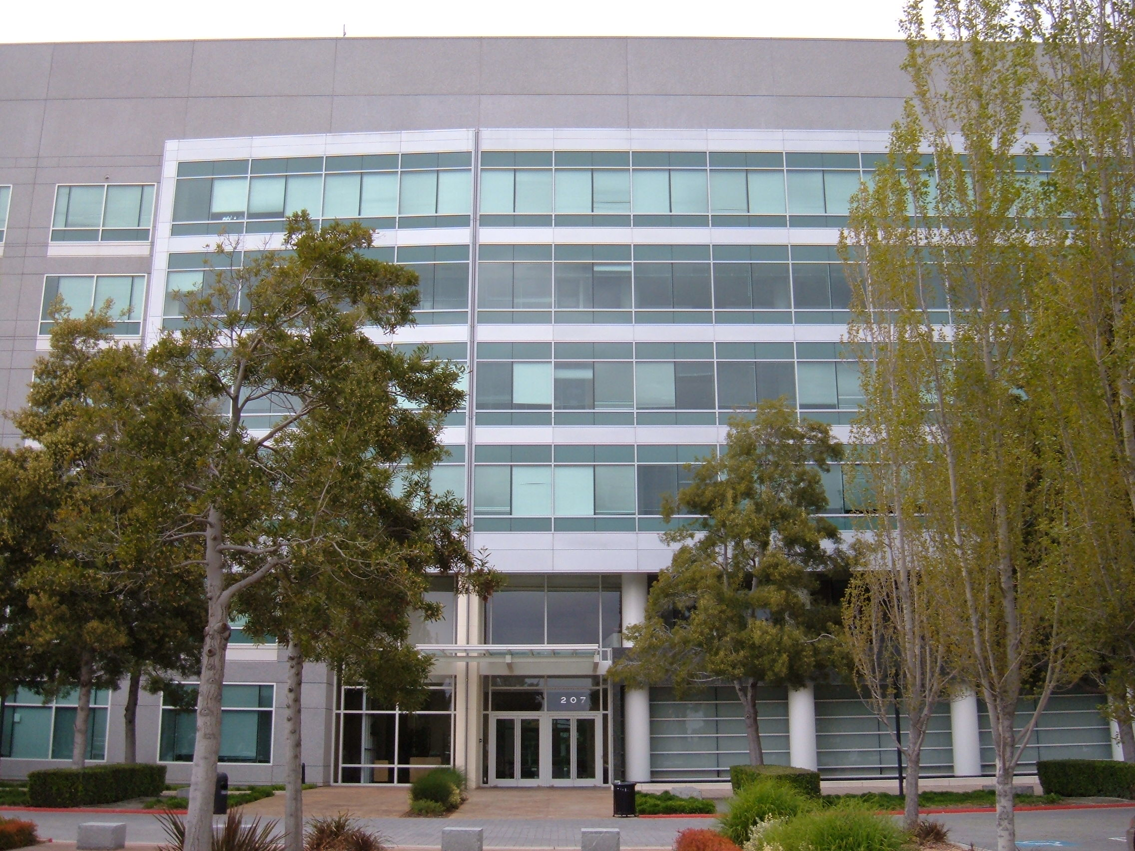 207 Redwood Shores Parkway, the location of the visitor reception area of Electronic Arts in Redwood City, California.